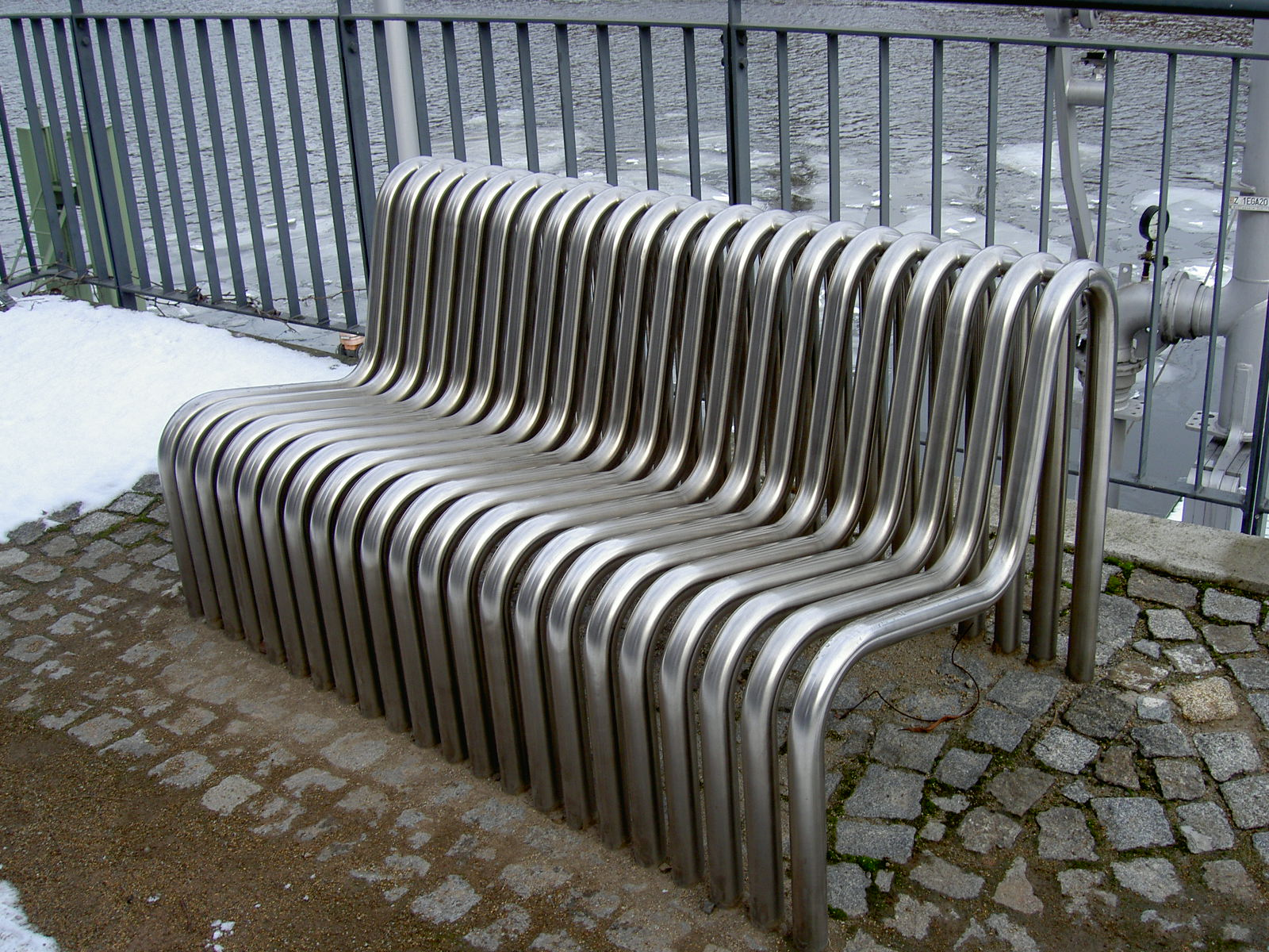 Heizkraftwerk Berlin-Mitte - heated benchs of Ayse Erkman at Spree waterside